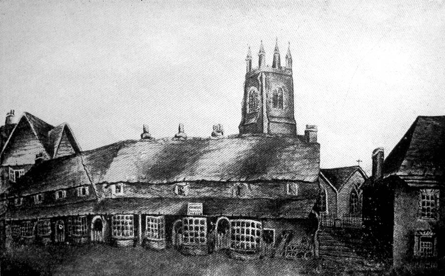 photo of old etching that I have retouched